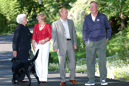 BOCHAROV RUCHEI, SOCHI. President Putin and his wife, Lyudmila, with former US President George H.W. Bush and his wife, Barbara.